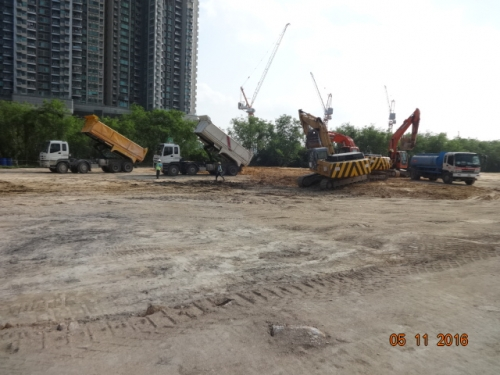 TKO football training grounds filling underway